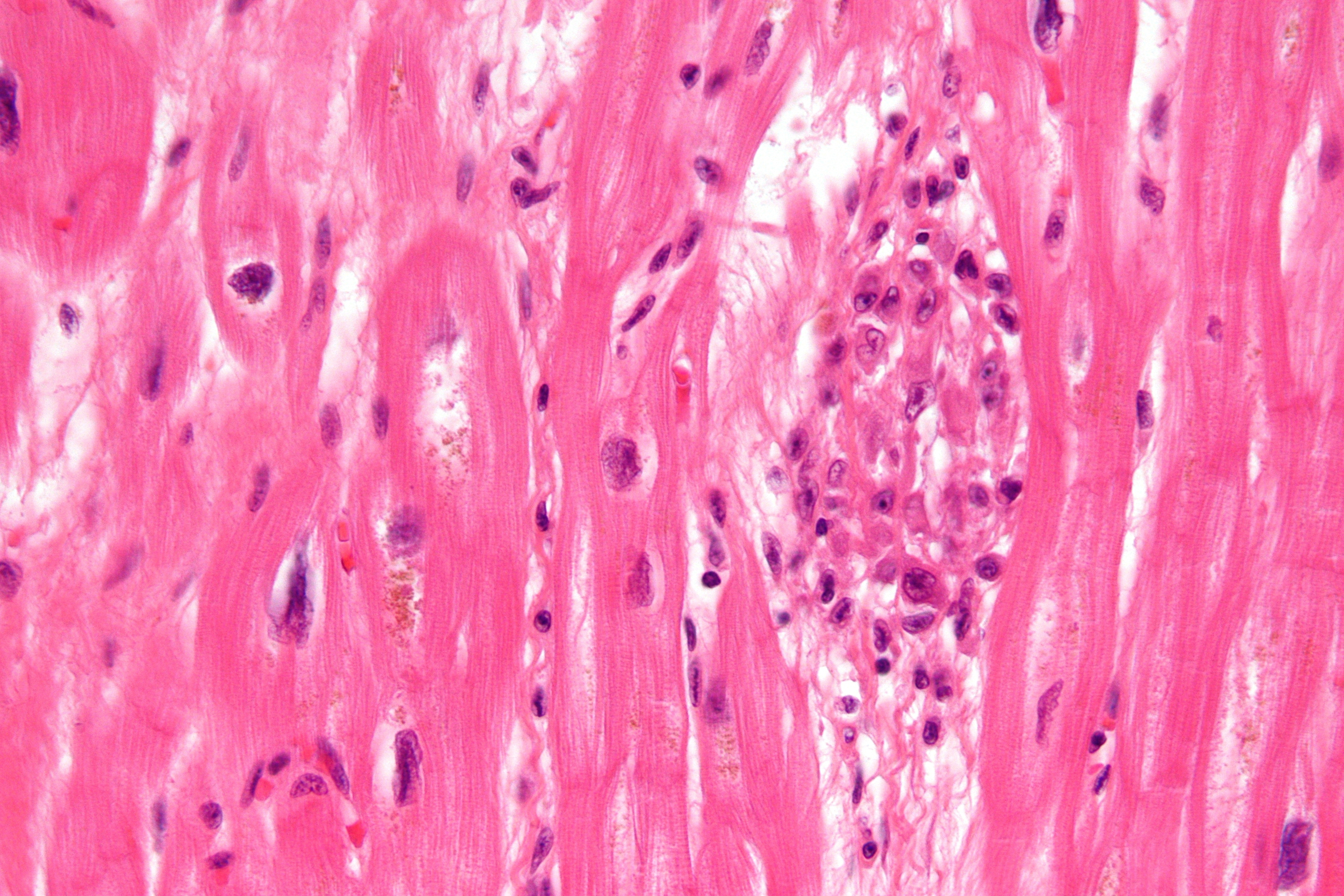 Very high magnification micrograph of rheumatic heart disease. H&E stain. It is due to Streptococcus pyogenes. Microscopic findings include Anitschkow cells (also known as caterpillar cells), and Aschoff bodies. Anitschkow cells are thought to be cardiac histiocytes and Aschoff bodies are thought to be granulomas.[1] Related images Low mag. Intermed. mag. High mag. Very high mag. High mag. Very high mag. High mag. Very high mag. Very high mag. References ↑ (Jul 1988). "Aschoff bodies of rheumatic carditis are granulomatous lesions of histiocytic origin.". Mod Pathol 1 (4): 256-61.